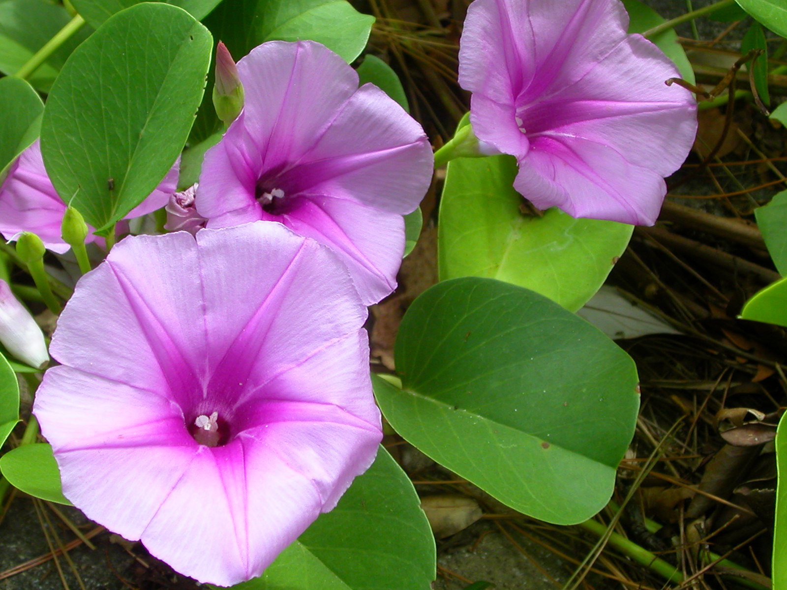 Ipomoea pes-caprae